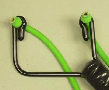 Picture of the band attachment mechanism that led to the recall of the Daisy "Natural" line of slingshots. Pictured is the ERG-100 model. The bands are held in place by a small ball inside the tubing at the fork end; if the bands are allowed to slip down the slot, they may slip off the fork and strike the user in the face, causing severe facial injury.